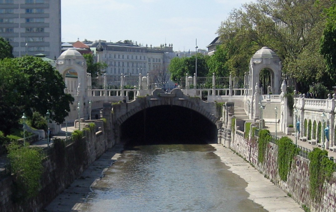 Vienna, Stadtpark